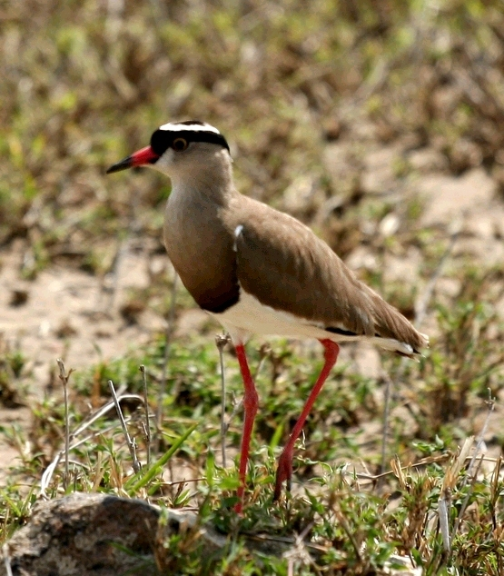 Crowned Lapwing Vanellus coronatus, Shinyanga, Tanzania